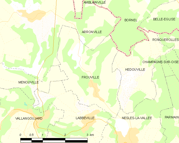 Map of French municipality Frouville